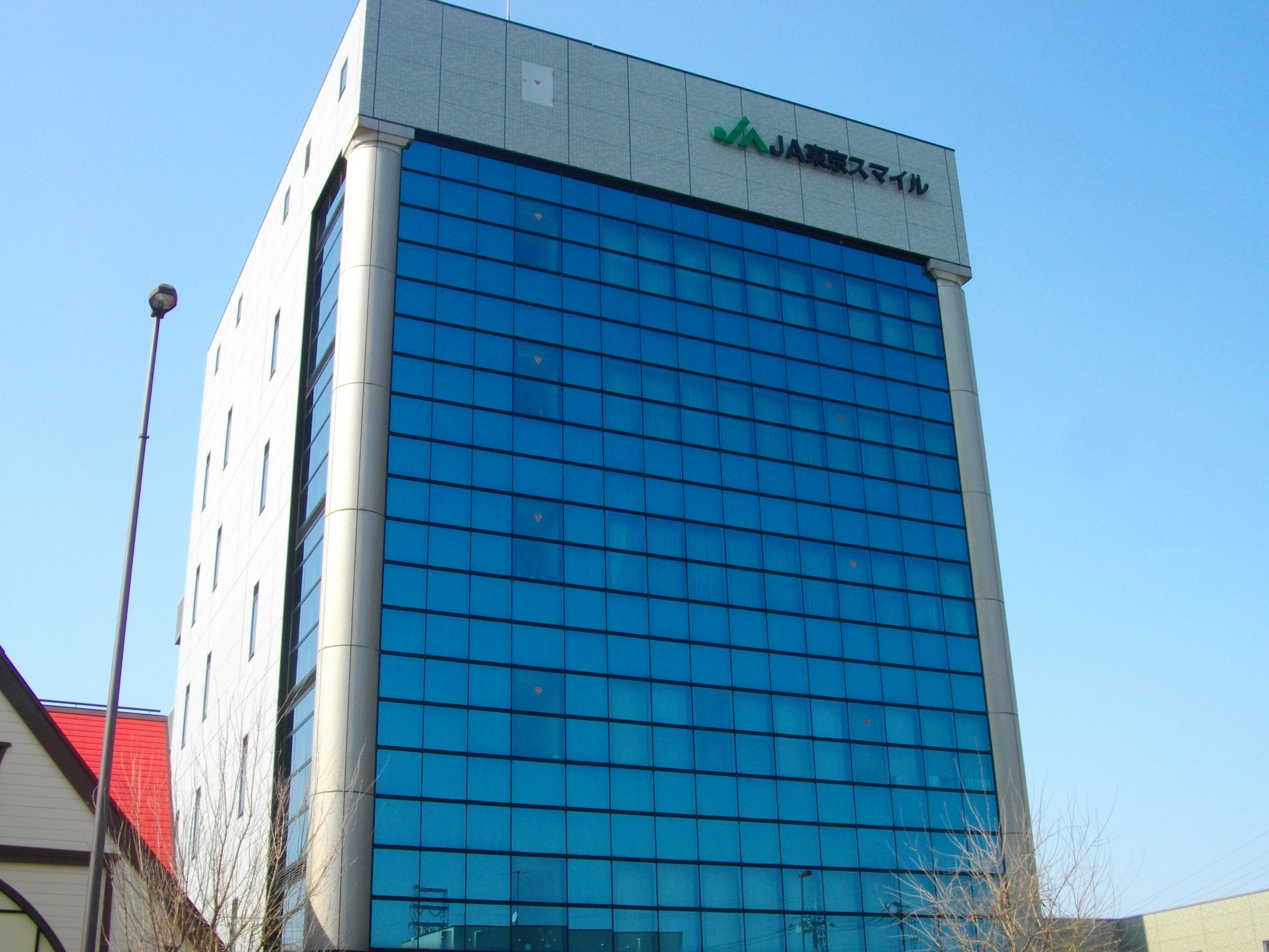 JA Tokyosmile Headquarters